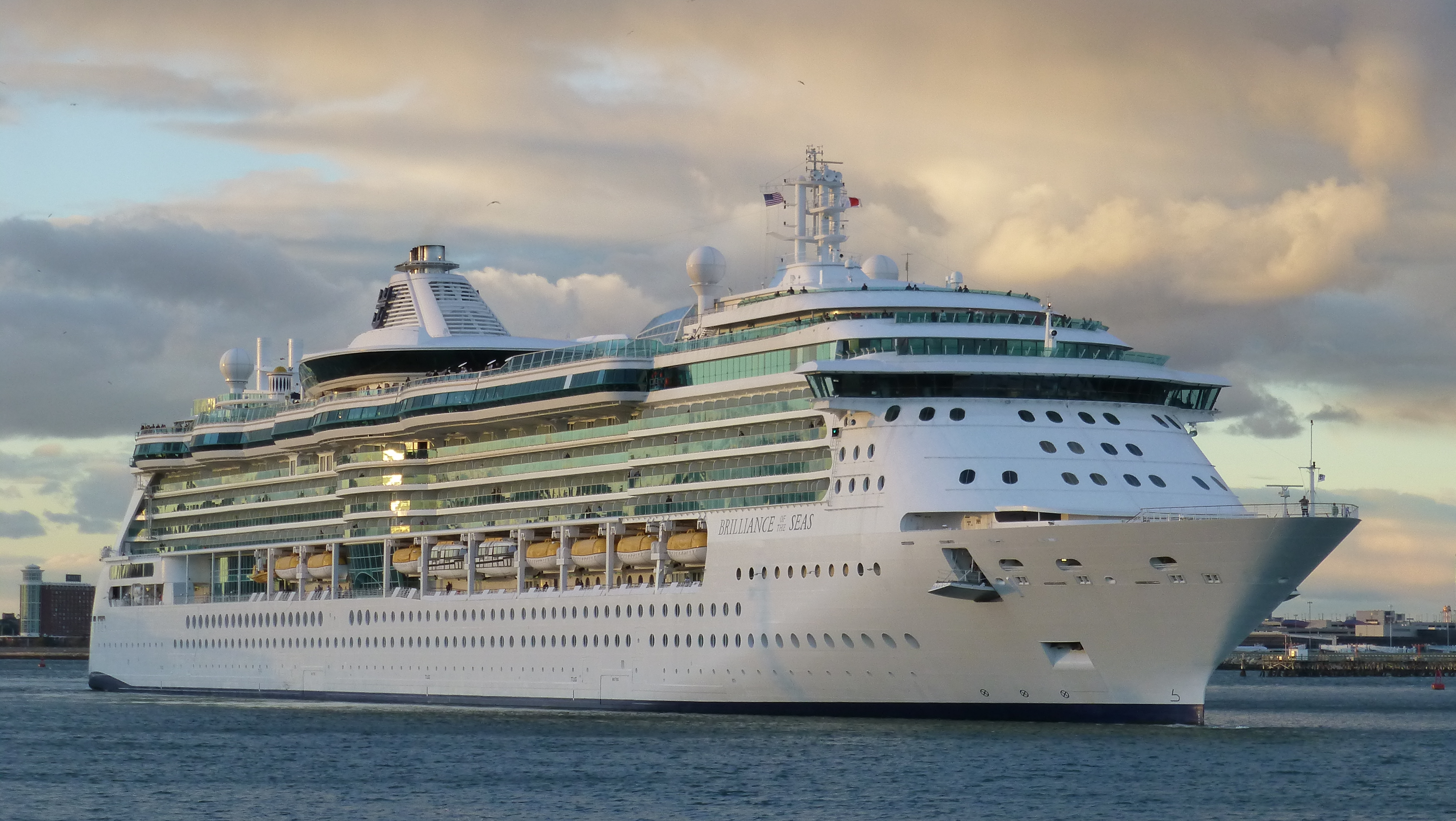 MS Brilliance of the Seas passes Logan International Airport while departing from the Black Falcon Cruise Terminal in Boston, Massachusetts en route to Tampa, Florida on 26 October 2014. Taken from the McCorkle Fishing Pier at Castle Island.